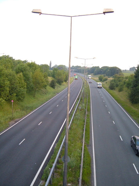 A500 near Audley. Looking west along the dual carriageway from the bridge at the junction with the road between Audley and Alsager.